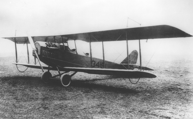 CURTISS JN-4 USAF